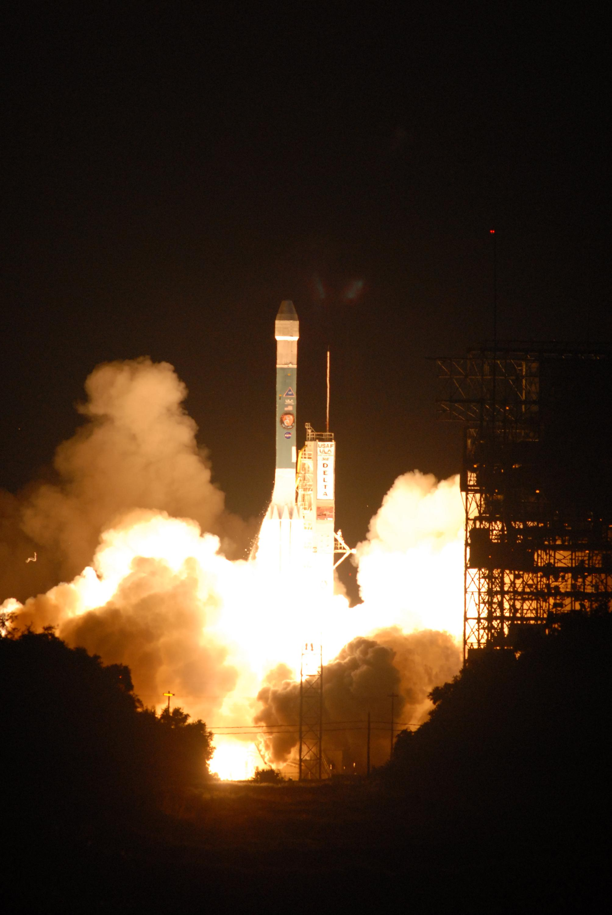 The Delta II 7925 rocket carrying NASA's Phoenix Mars lander lifts off amid billows of smoke from Pad 17A at Cape Canaveral Air Force Station at 5:26 a.m. EDT. Phoenix will land in icy soils near the north polar, permanent ice cap of Mars and explore the history of the water in these soils and any associated rocks, while monitoring polar climate. Landing on Mars is planned in May 2008 on arctic ground where a mission currently in orbit, Mars Odyssey, has detected high concentrations of ice just beneath the top layer of soil.